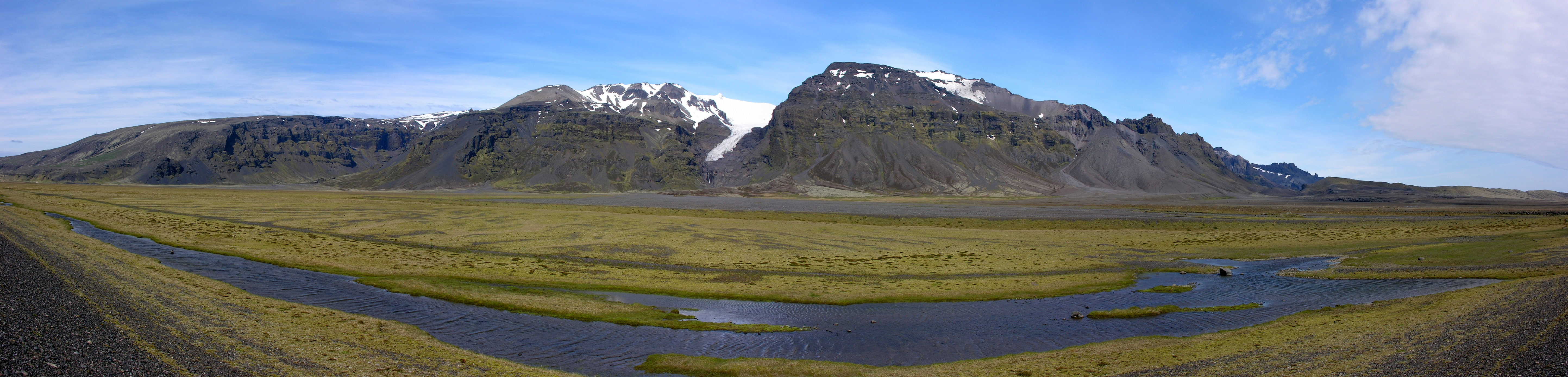 Öræfajökull Fraction flowing towards Road No 1